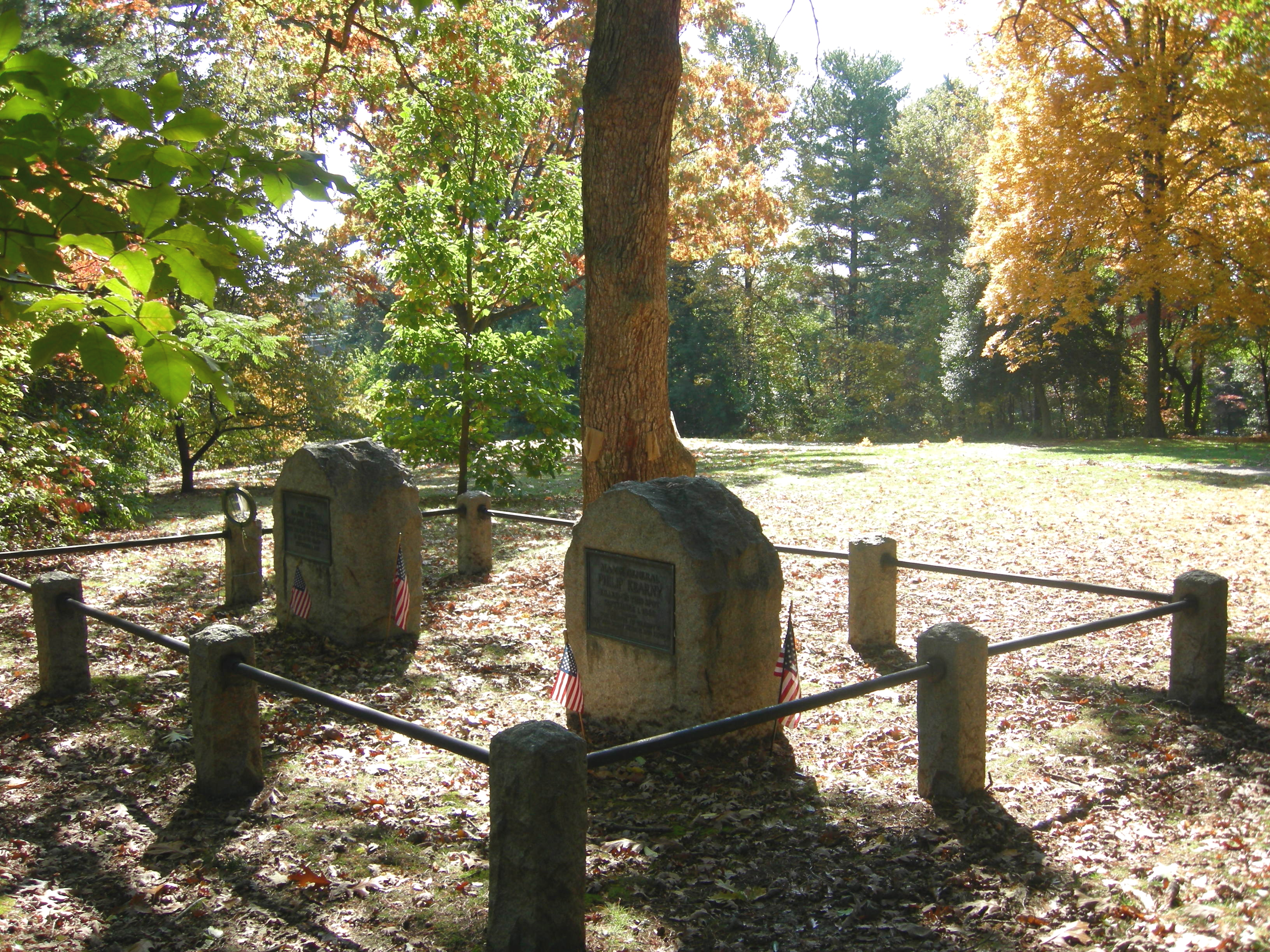 Ox Hill Battlefield Park, in Fairfax, Virginia, USA. This was the site of the Battle of Chantilly (known by the Confederacy as the Battle of Ox Hill) during the Civil War on September 1, 1862. The monuments are to Union generals Isaac Stevens (left) and Philip Kearny (right), who were both killed during the battle. They are not gravestones, and were erected in 1915.